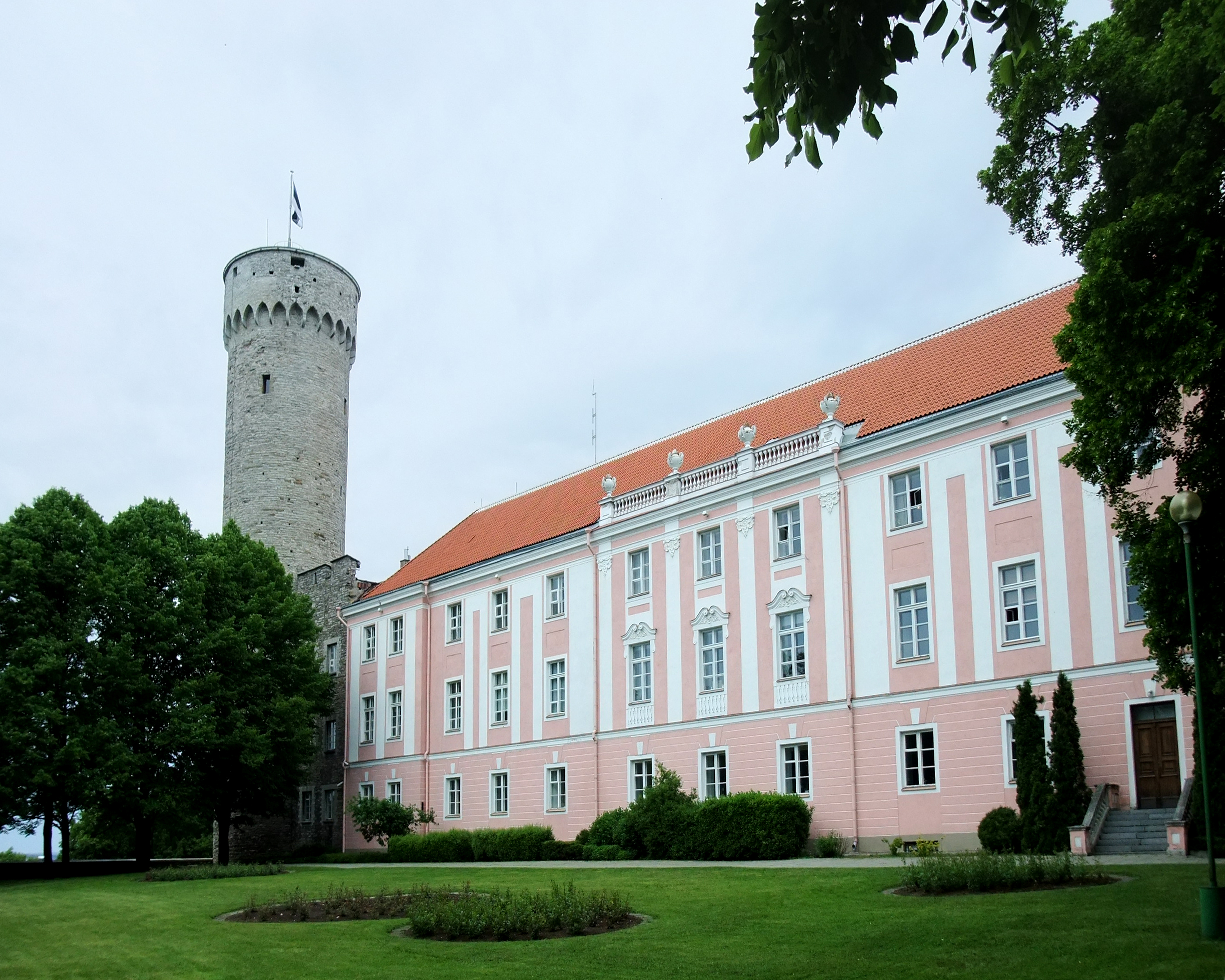 Estonian Parliament building in Tallinn, Estonia